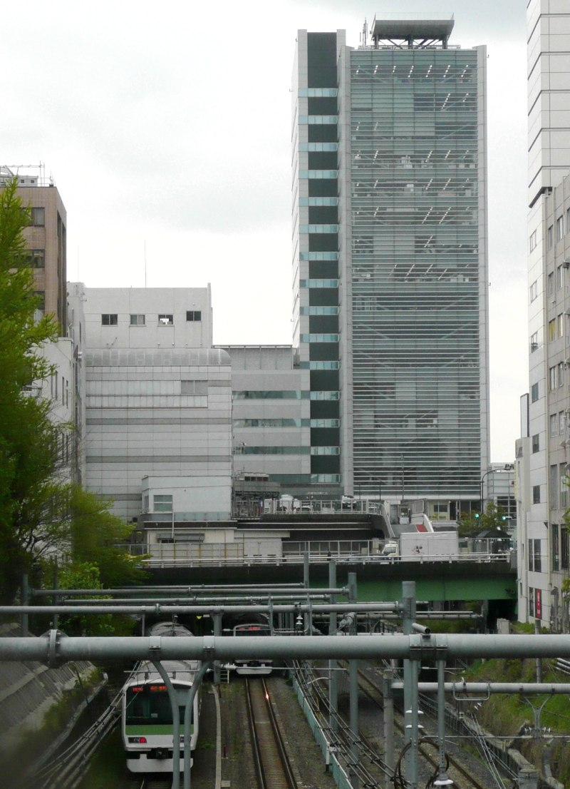 This headquarters of NJPW.